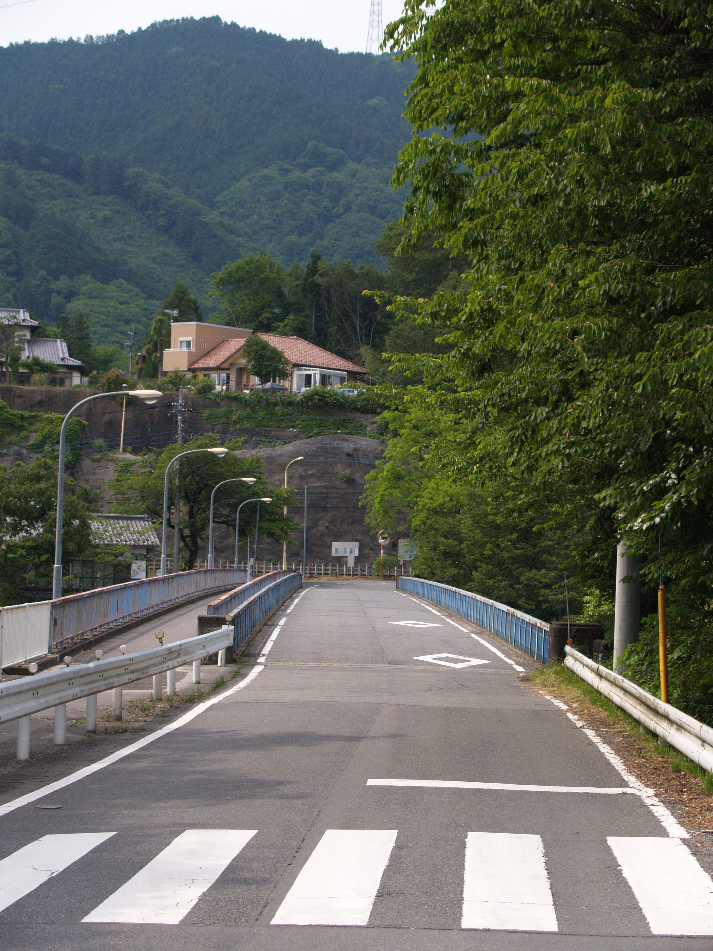 Saitama Prefectural road 201